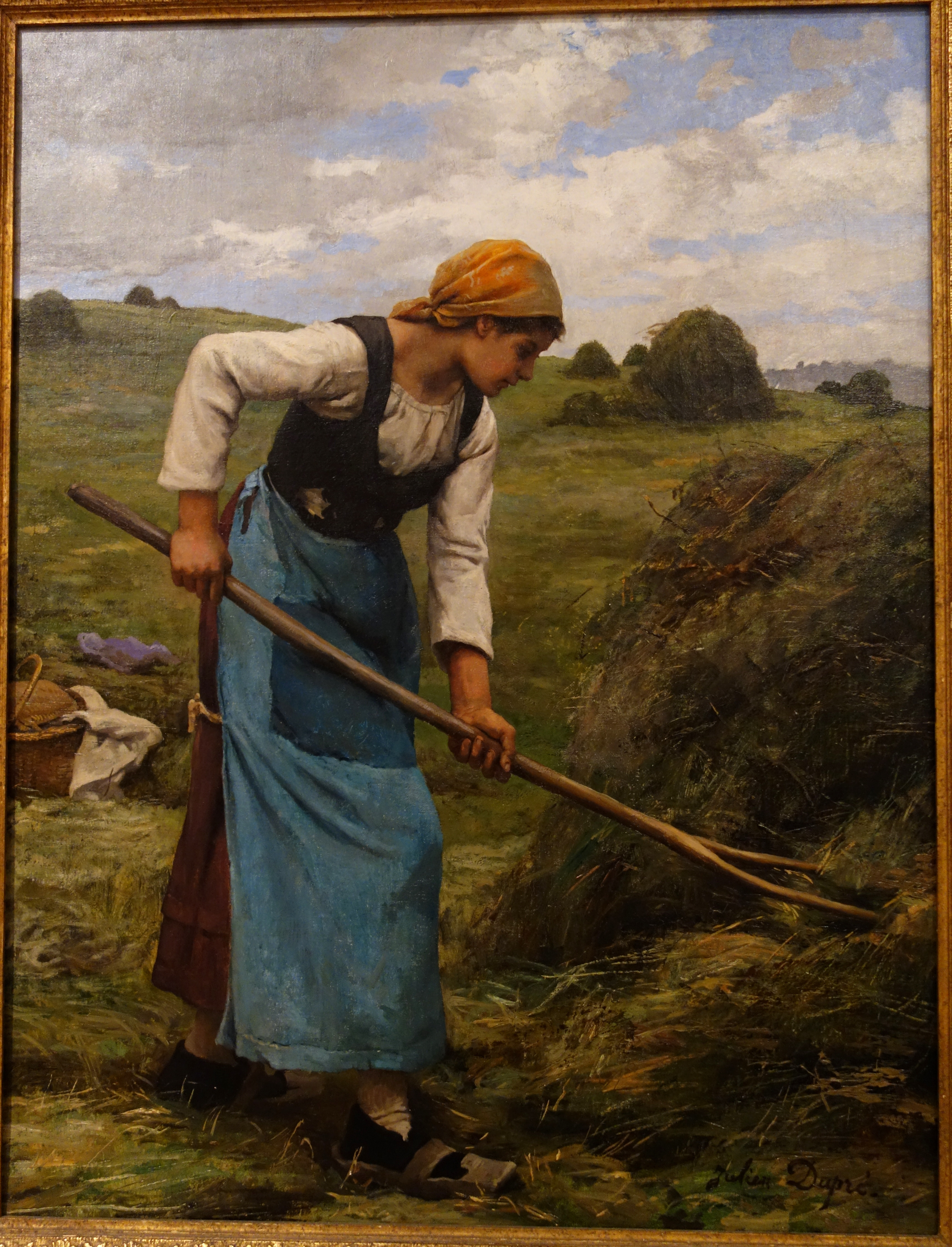 The Harvester